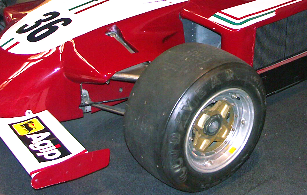 Cerchio Alfa Romeo 177